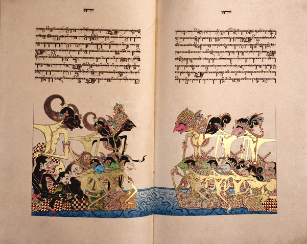 The Pandawa forces arrayed for battle on the field of Kurusetra, from a sumptuously illustrated Serat Bratayudha produced in the palace of the Yogyakarta Sultan Hamengku Buwana VII, copied in Yogyakarta 1902-1903.